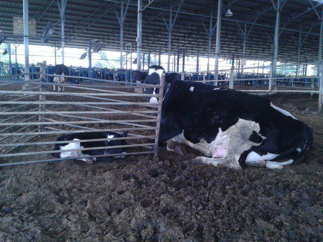 Dairy industry, a new born calf separated from mother in a temporary cage. Photo taken by Tal Gilboa in Kibutz Eyal, Israel, 2013